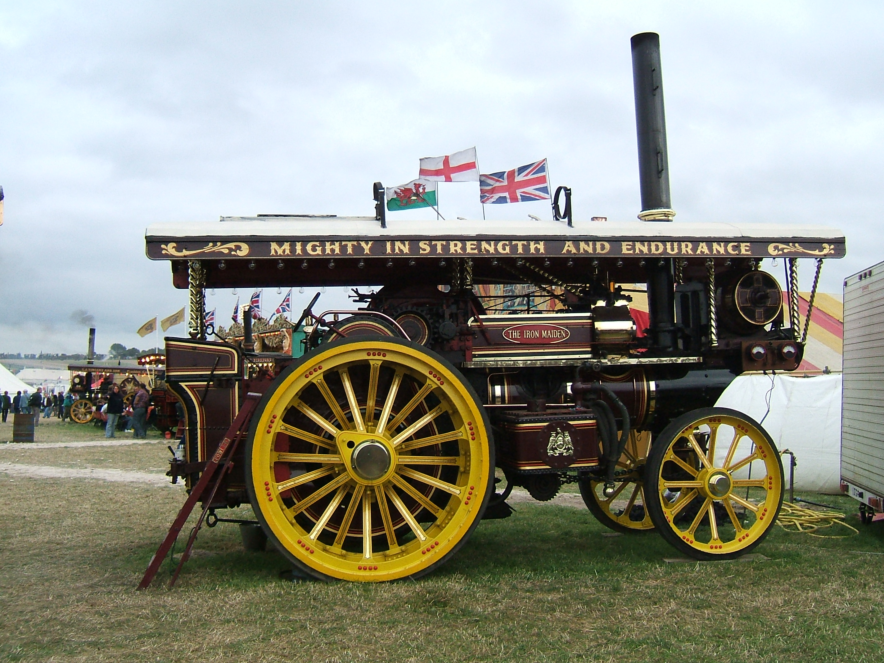 The Iron Maiden at the Great Dorset Steam Fair Fowler 7nhp showman's engine, star of the film of the same name.